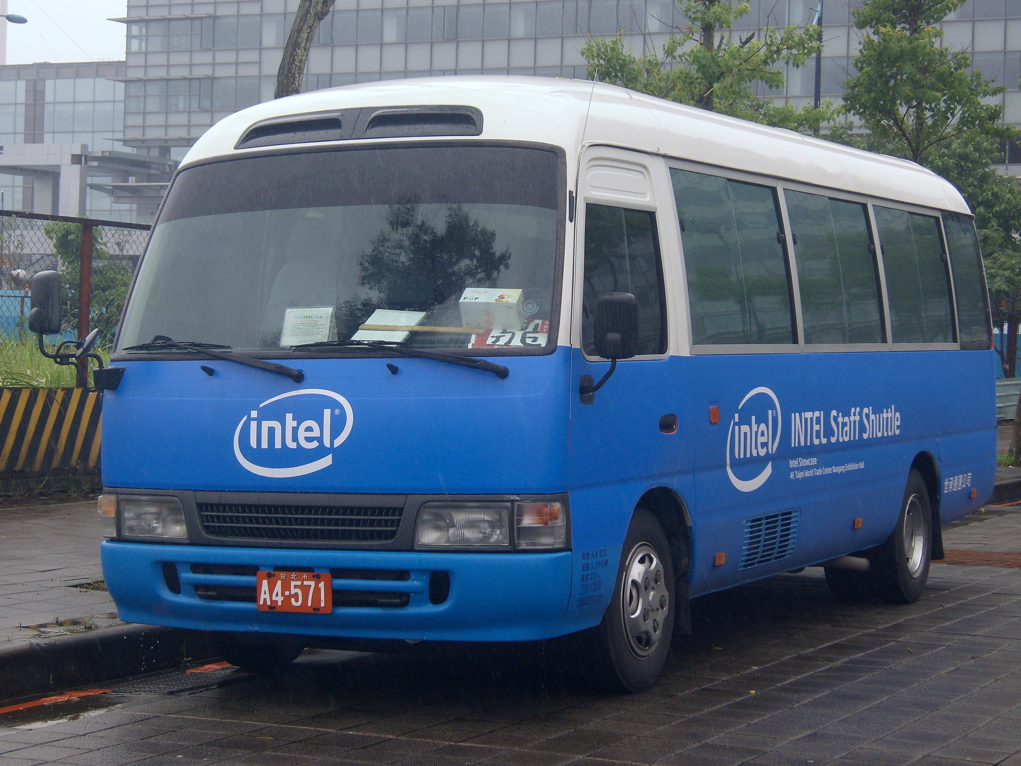 2008 Computex: Intel Staff Shuttle Bus (A4-571).